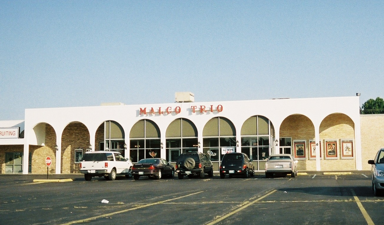 Picture of the Malco Trio in Sikeston taken by A. Nathan McDaniel in 2005.